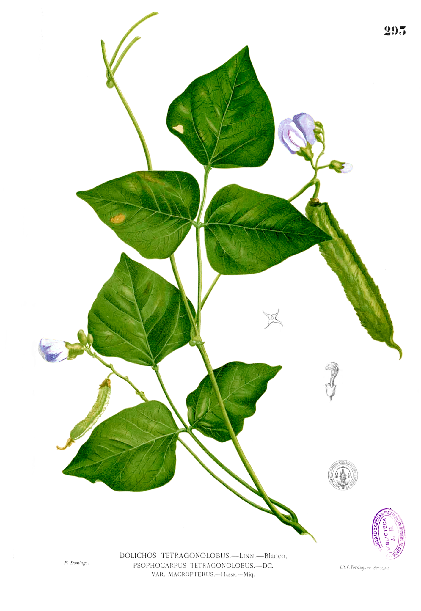 Plate from book